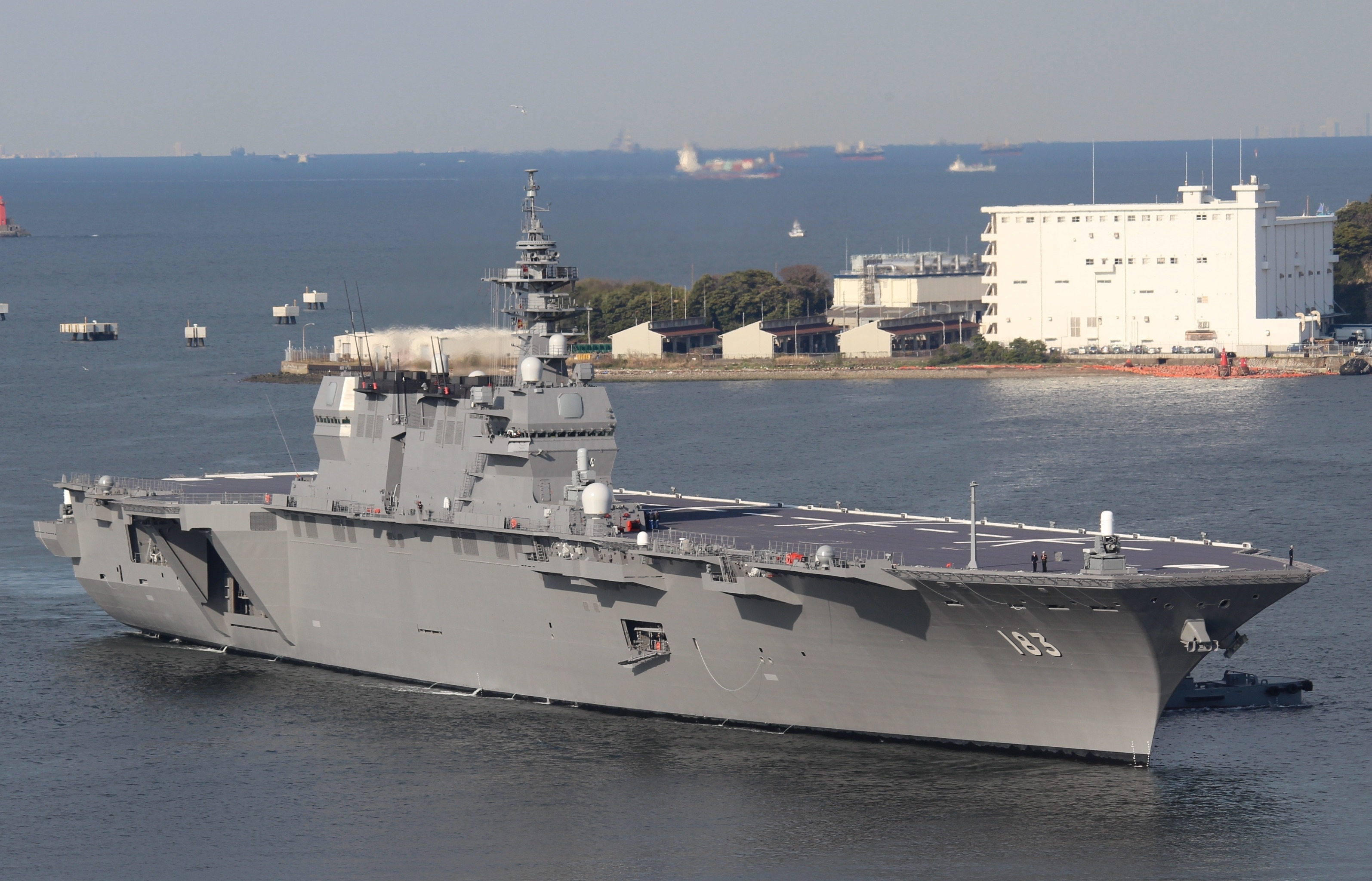 JS Izumo(DDH-183)